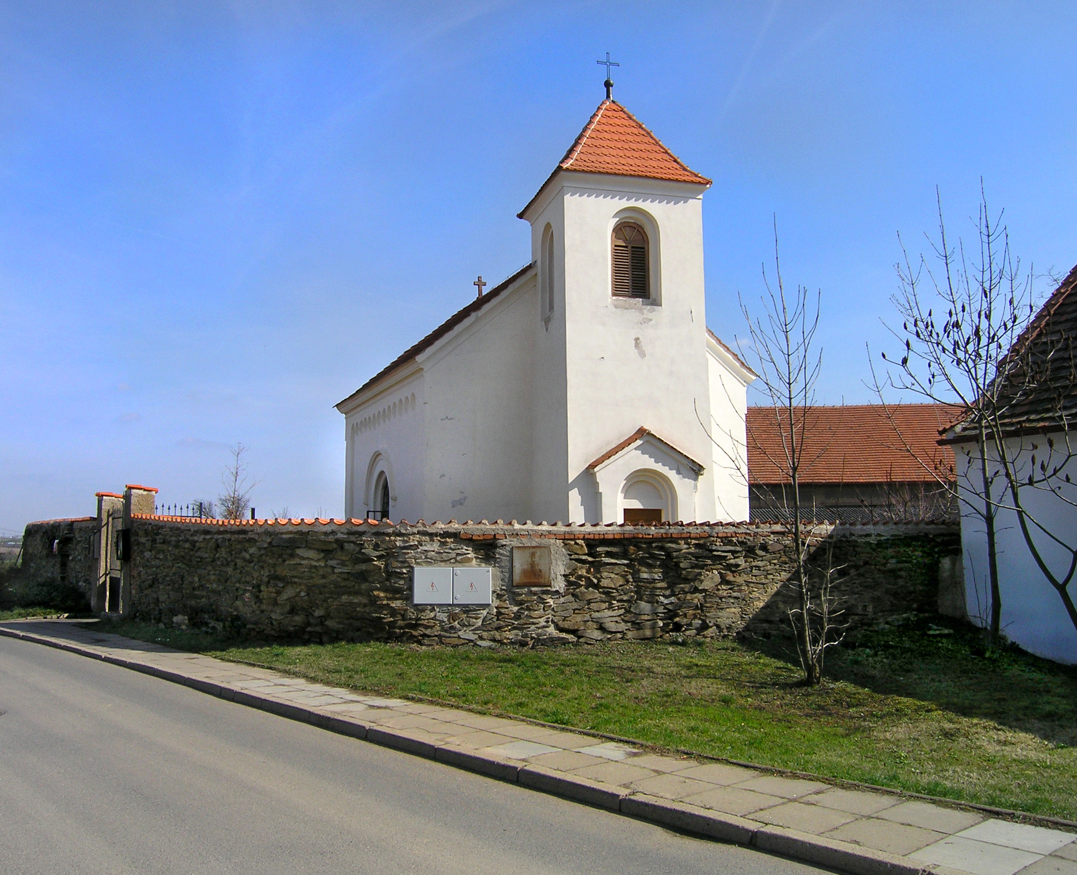 Svatý Martin church at Lipany, Prague